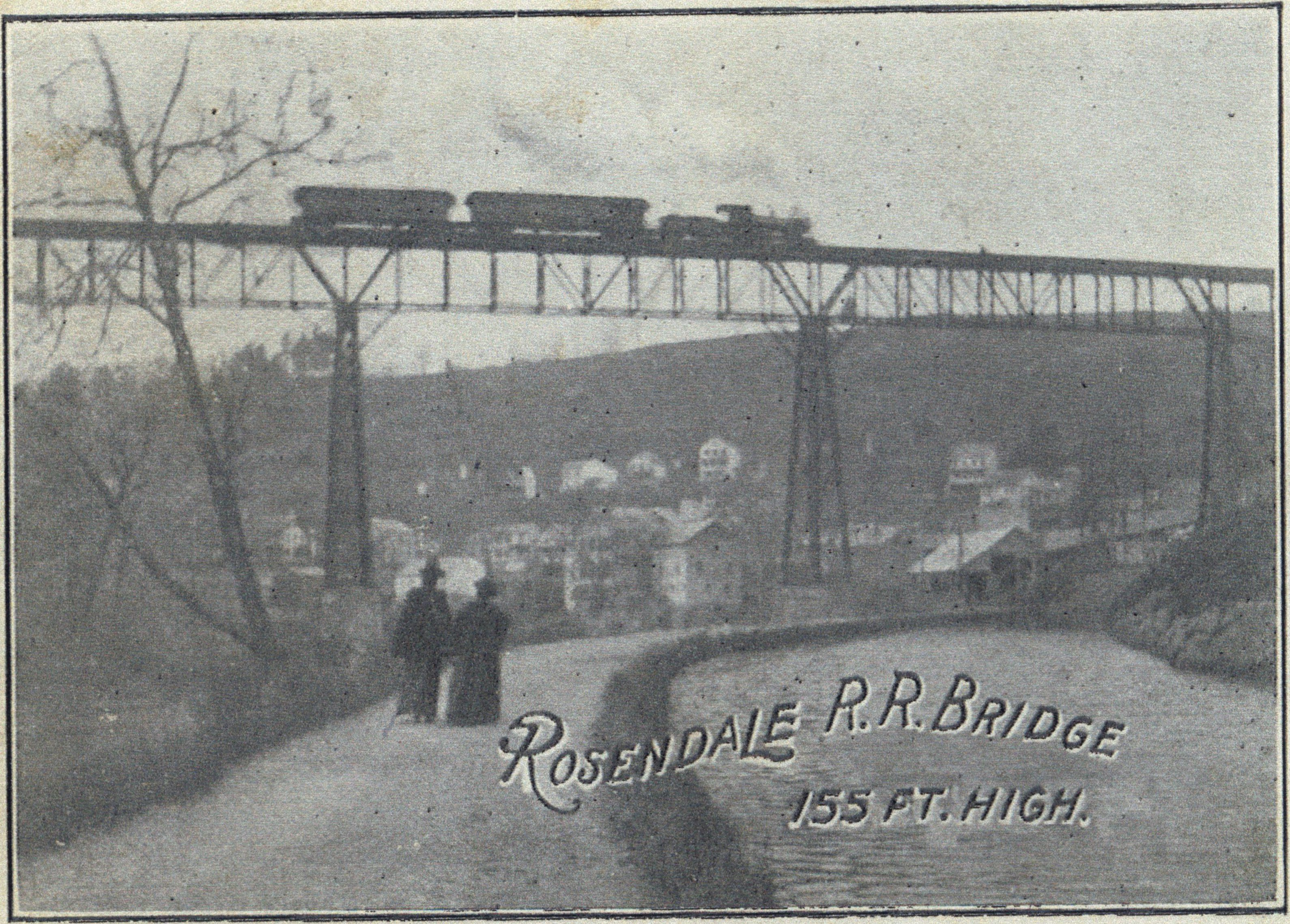 Two women walking along "Dead Man's Curve" under the railroad bridge in Rosendale, New York.